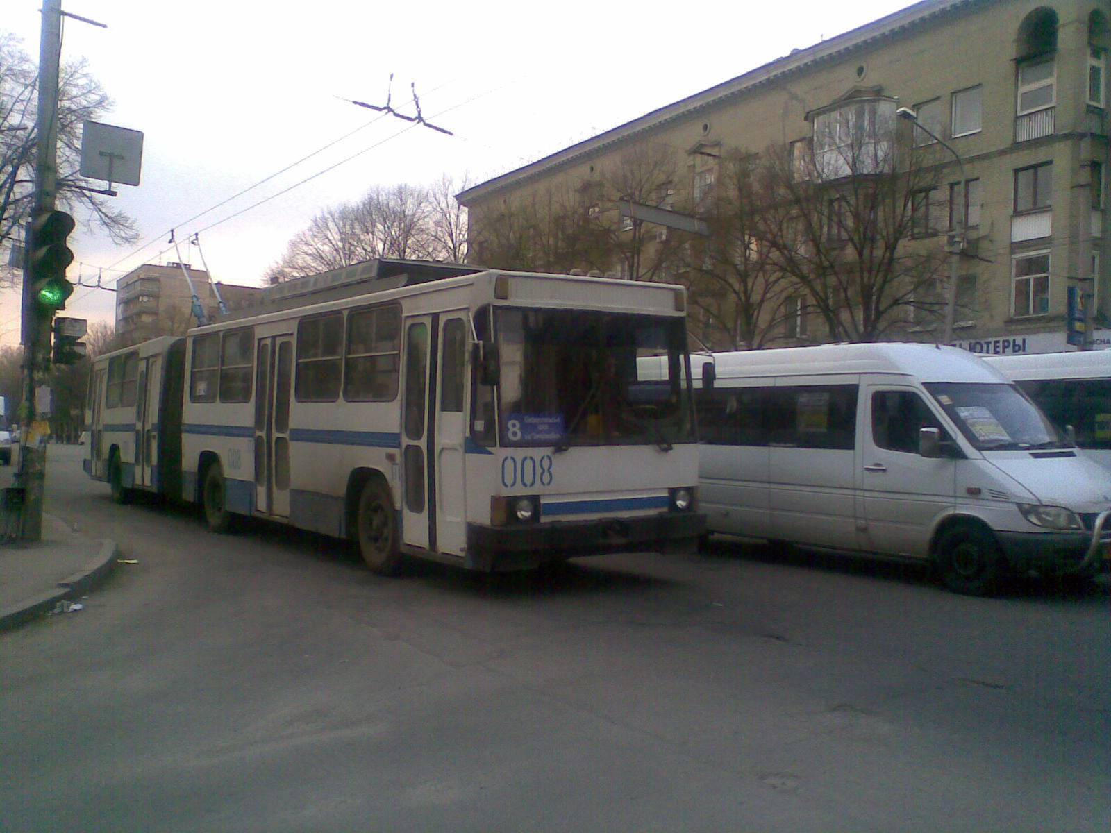 Trolleybuses in Zaporizhzhya